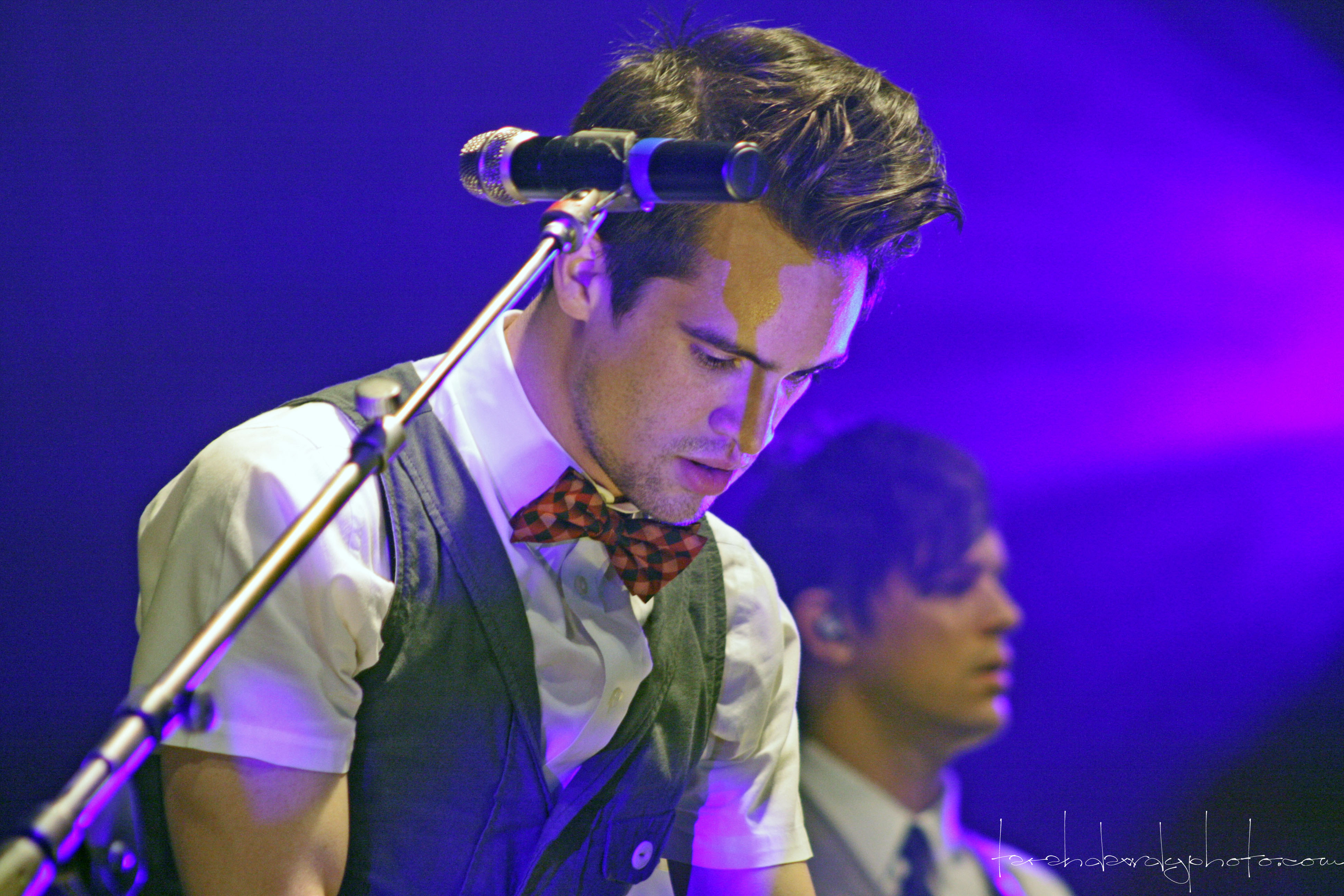 Brendon Urie performing at Sokol Auditorium in Omaha, Nebraska on June 29, 2011.